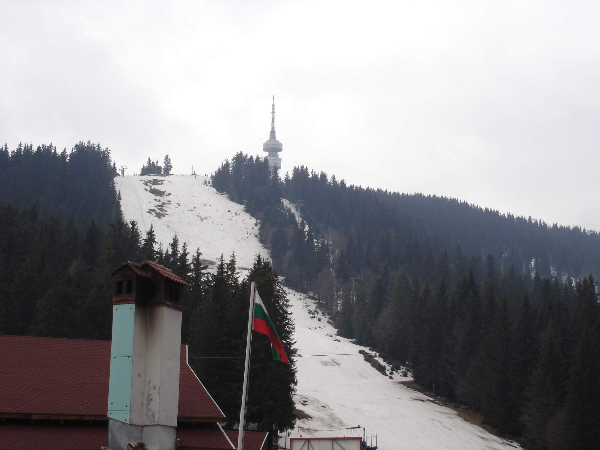 The TV tower and ski track under peak Snejanka